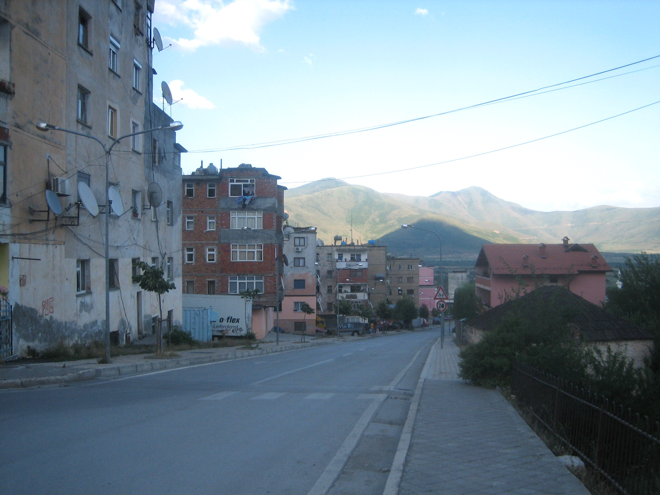 Rruga Mic Sokoli in Bajram Curri, Tropojë District, Kukës County, Albania